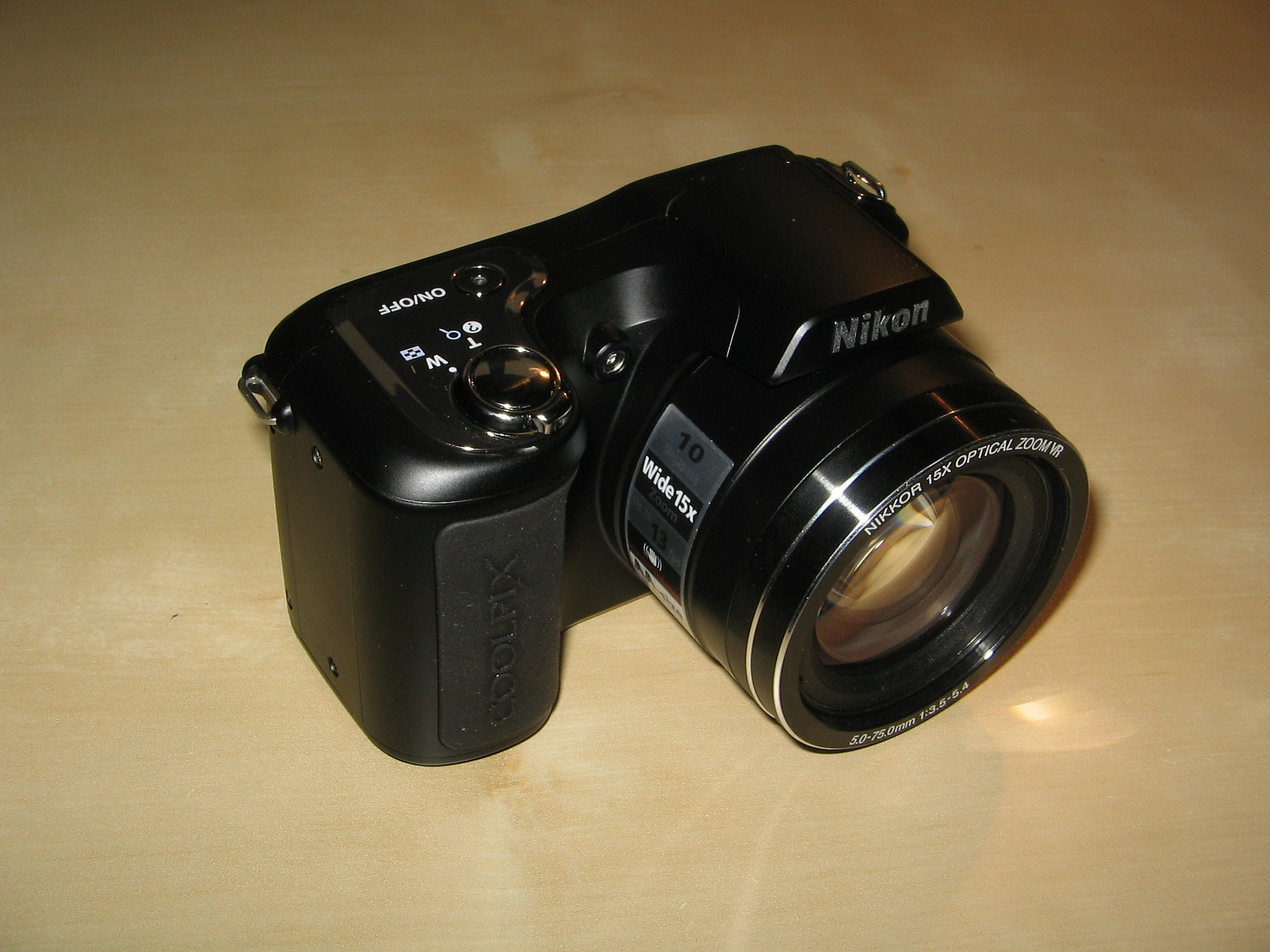 Nikon COOLPIX L100 digital camera. Picture taken with Canon PowerShot A400.